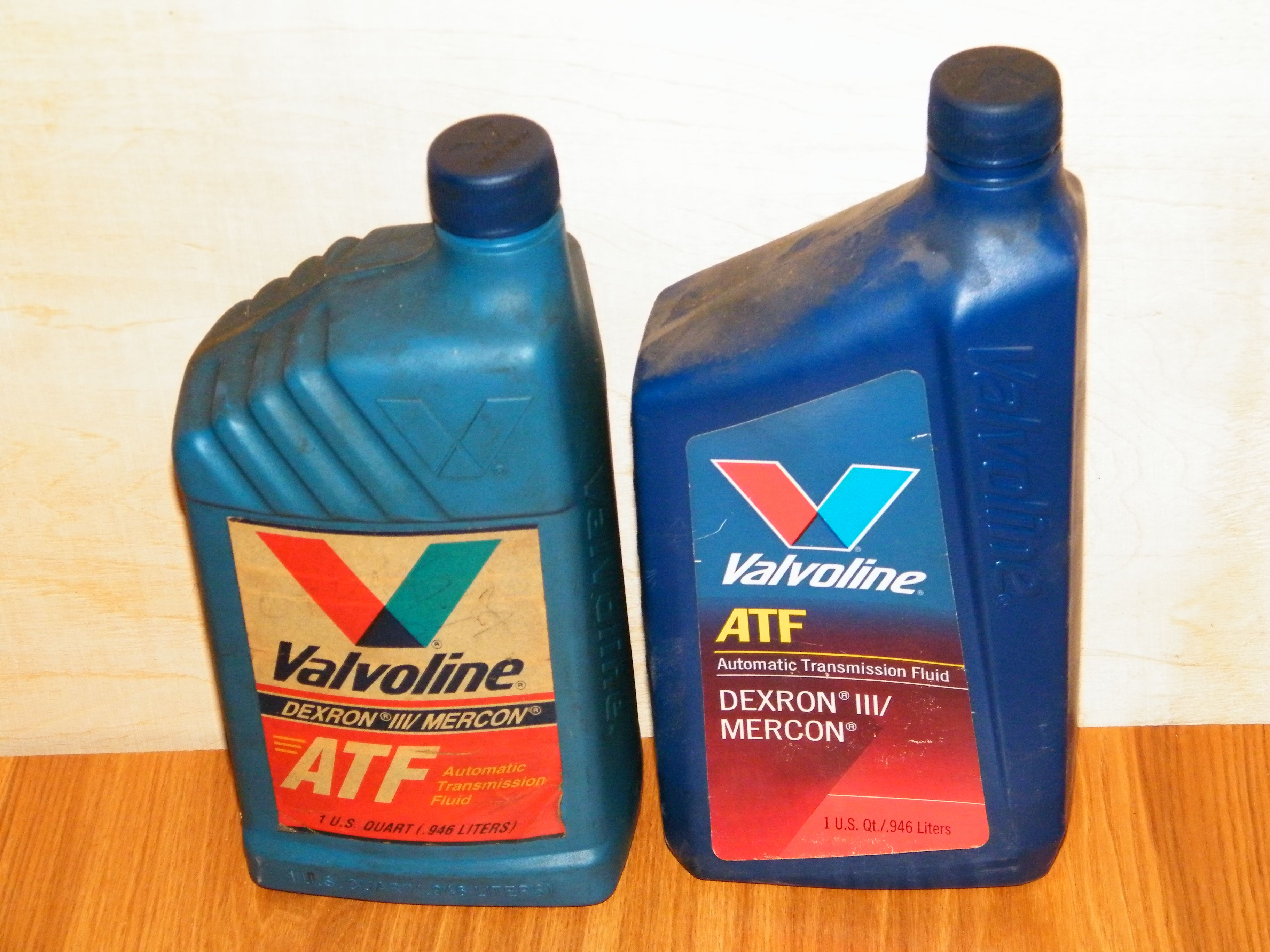 ATF Automatic transmission fluid Dextron III